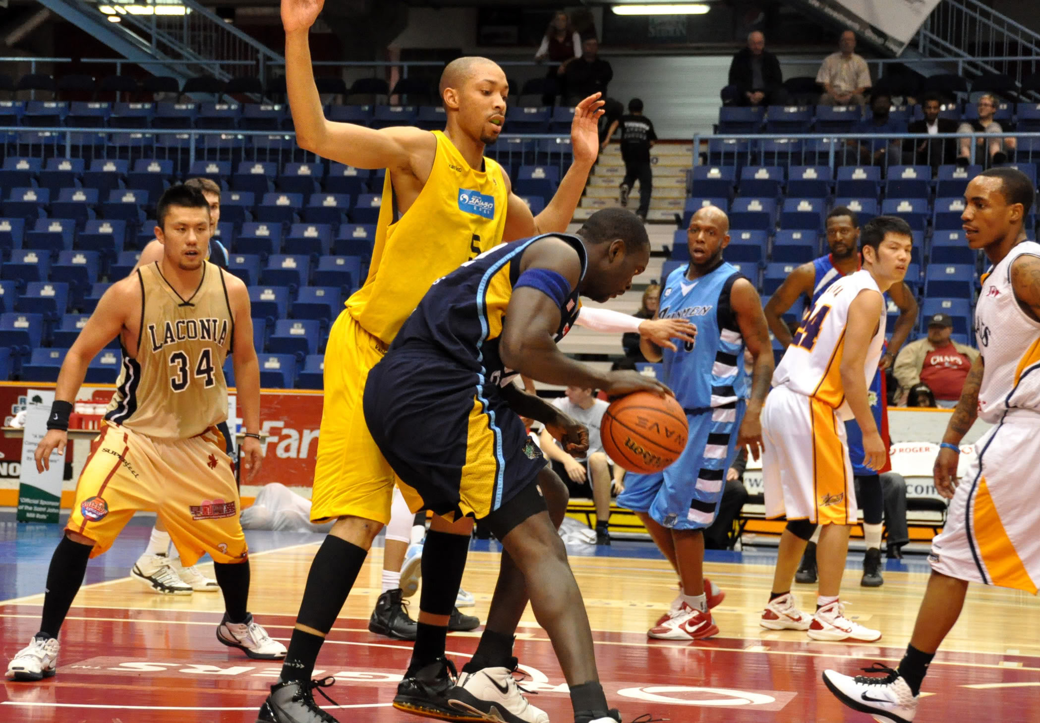 Woodward (bight yellow) playing in Saint John